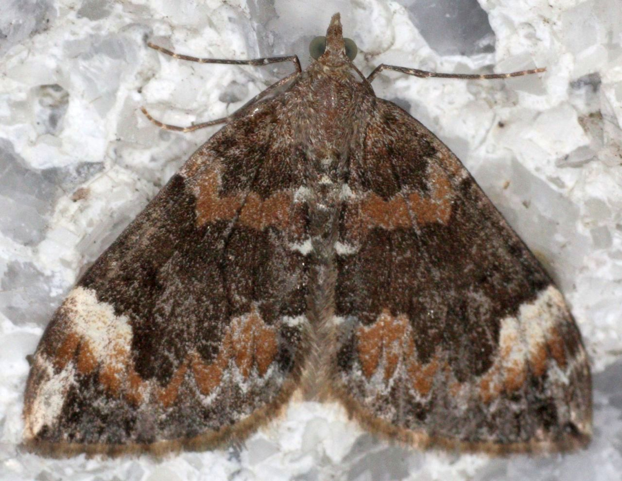 Dark Marbled Carpet Dysstroma citrata